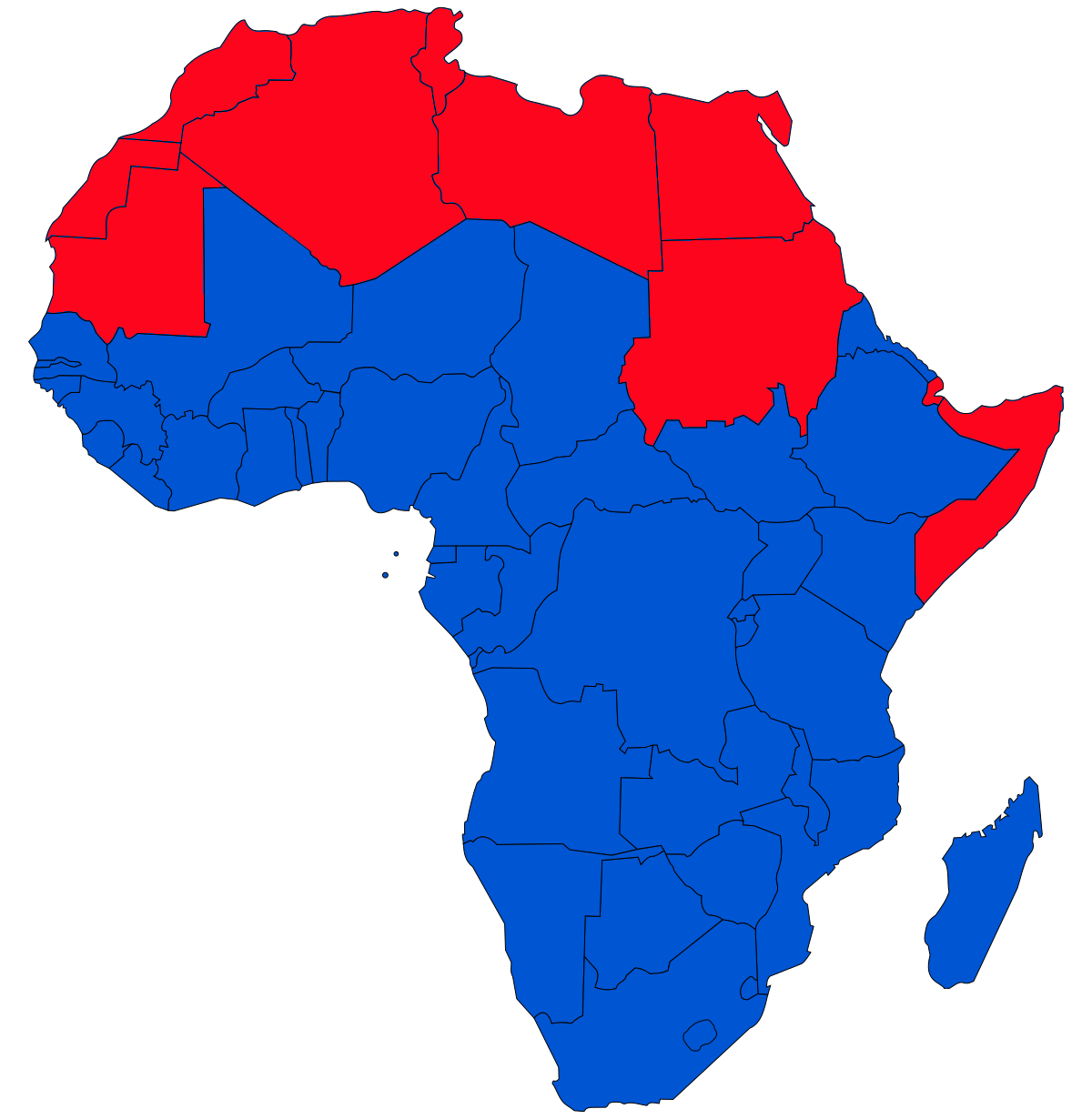 Arab states in Africa, red (Arab League and UNESCO).